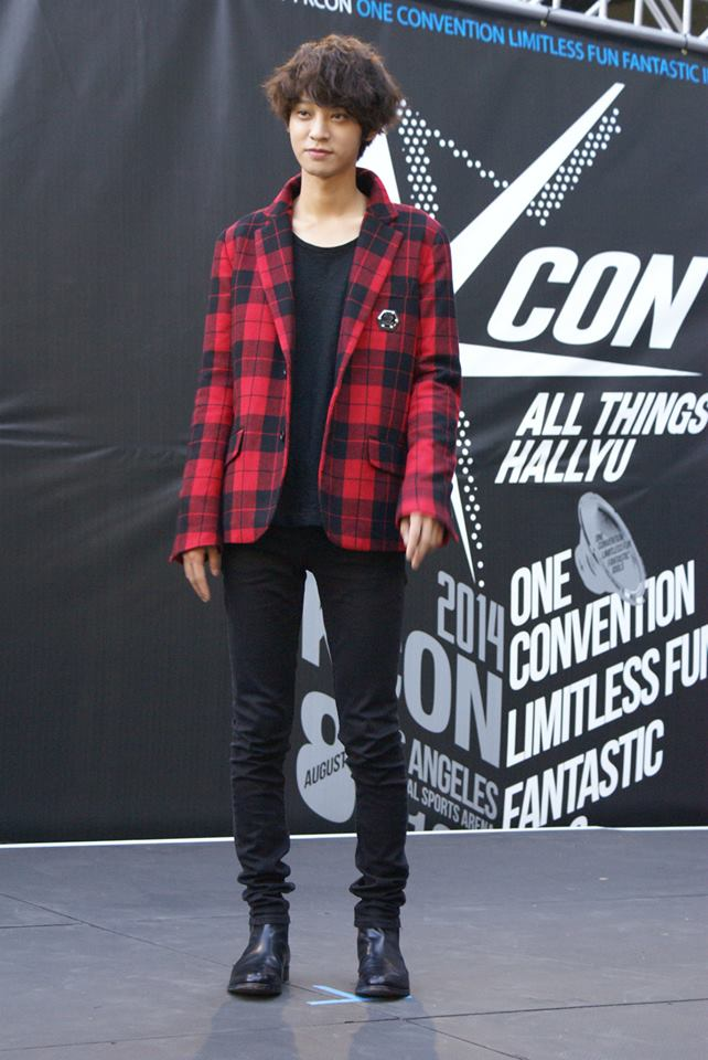 Jung Joon-young during KCON (music festival), 2014